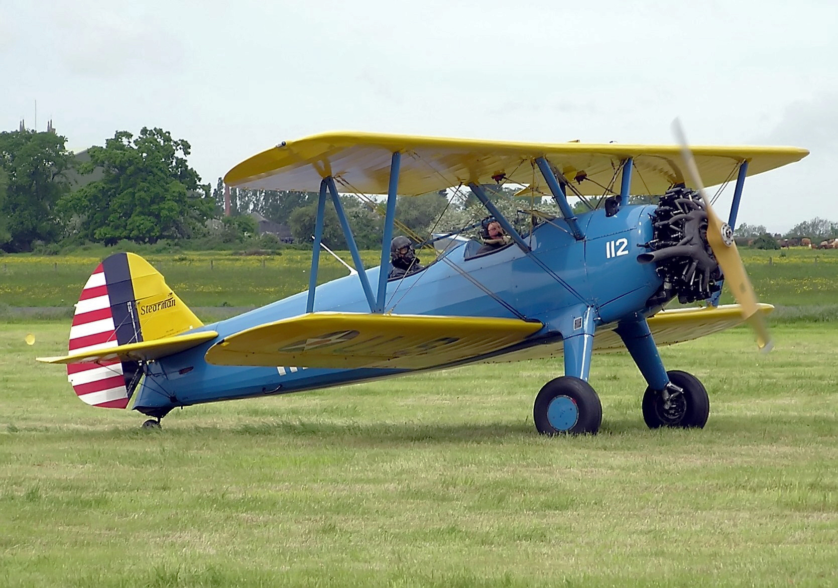 Boeing Stearman E75 (PT-13D) Kaydet, UK registration G-BSWC, at Keevil Airfield, Wiltshire, England. Photographed by Adrian Pingstone on May 27th 2006 and released to the public domain.